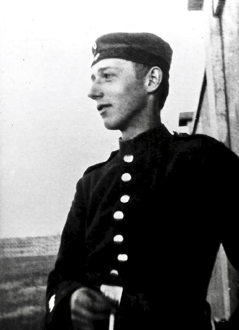 Peter Kollwitz (1896–1914), youngest son of Karl Kollwitz (1863–1940, née Johannes Carl August Kollwitz) and Käthe Kollwitz (1867–1945), née Schmidt. The picture was probably made at the infantry training area of Wünsdorf south from Berlin. On October 12, 1914, there he said goodbye to his mother leaving to the Western front.